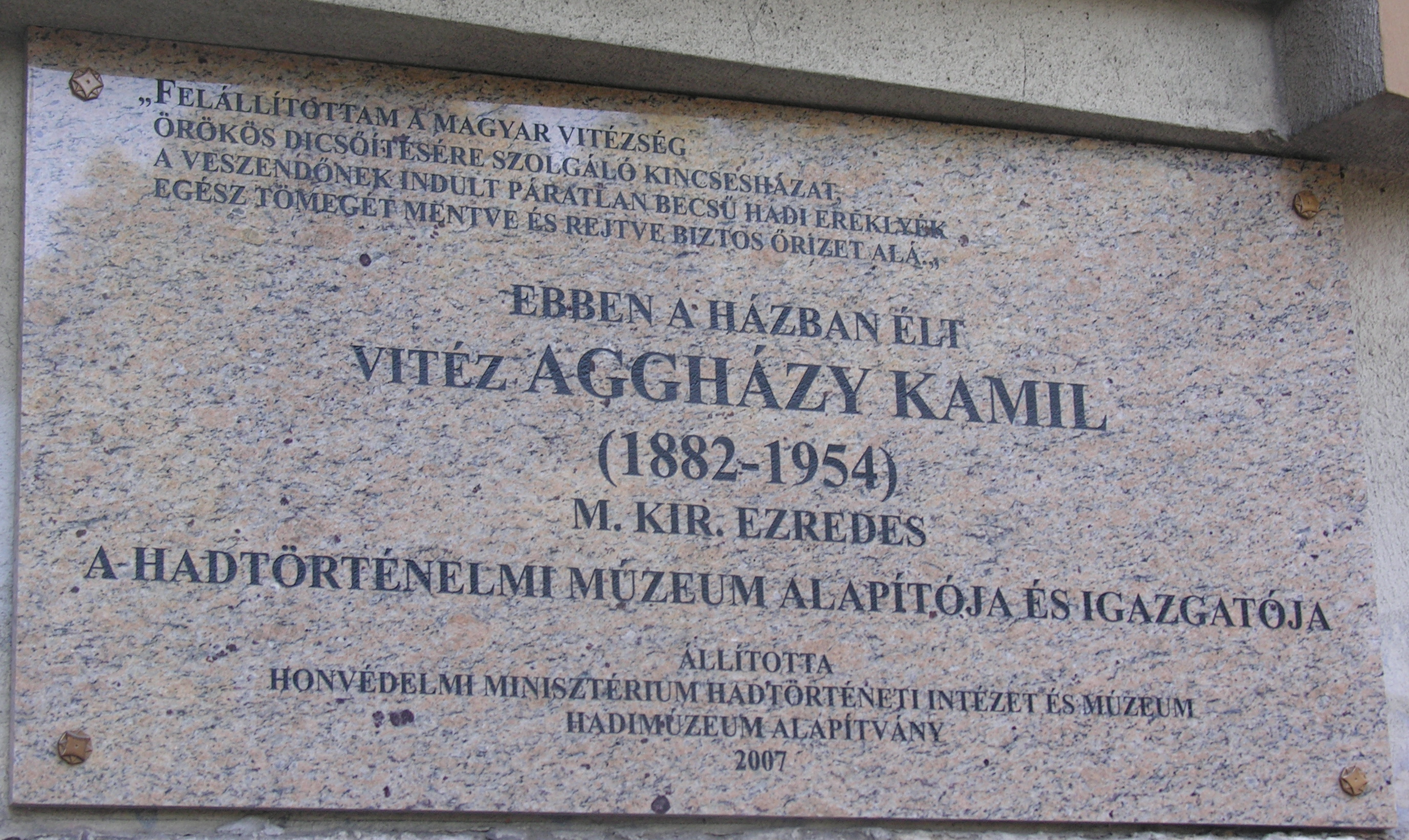 Commemorative plaque of Kamil Aggházy, Budapest District II, Szilágyi Erzsébet Alley No 17-19-21 (Trombitás Street side)